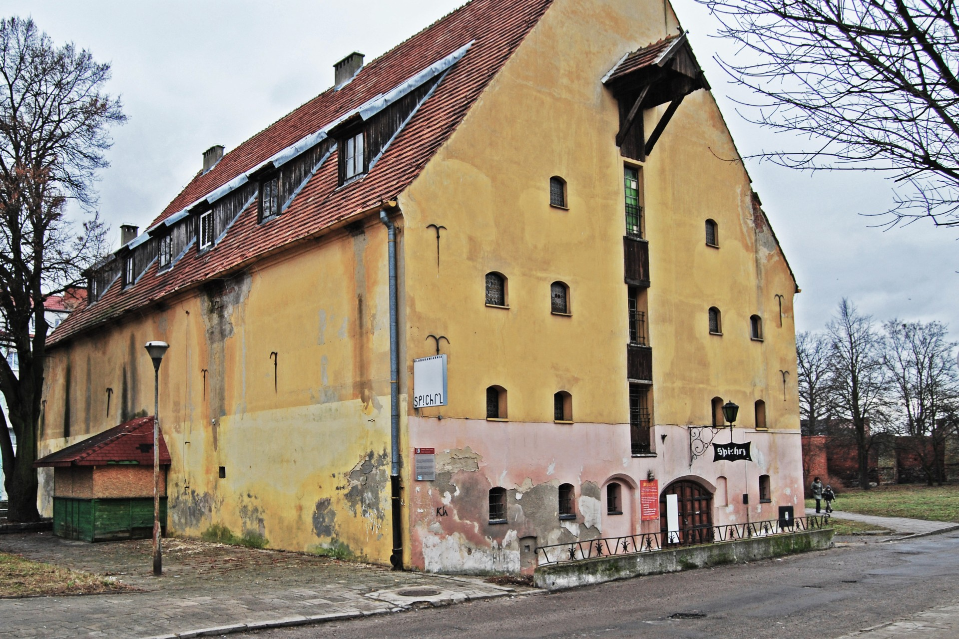 Granary in Stargard Szczeciński